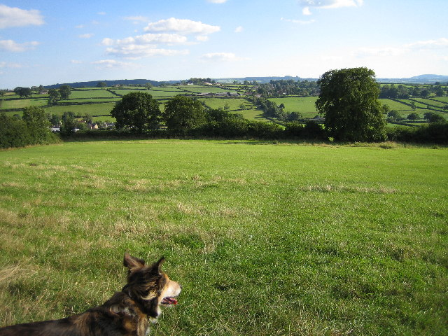 Hardington Moor - The middle field of Hardington Moor nature reserve looking south to Hardington Mandeville with the Dorset hills beyond.